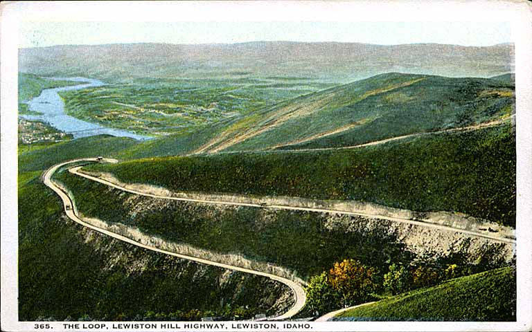 Caption on image: 365. The Loop, Lewiston Hill Highway, Lewiston, Idaho Built in 1917 the Lewiston Hill Highway served to connect nothern and southern Idaho. The 2000 foot grade had 64 sharp turns in 9.5 miles, which allowed cars to travel at 20 to 30 miles an hour. The road still exists today but was replaced by a newer grade in 1979. Subjects (LCTGM): Roads--Idaho; Postcards Subjects (LCSH): Lewiston Hill Highway (Idaho)